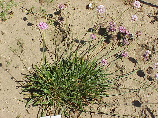 Species: Armeria alliacea Family: Plumbaginaceae Image No. 2